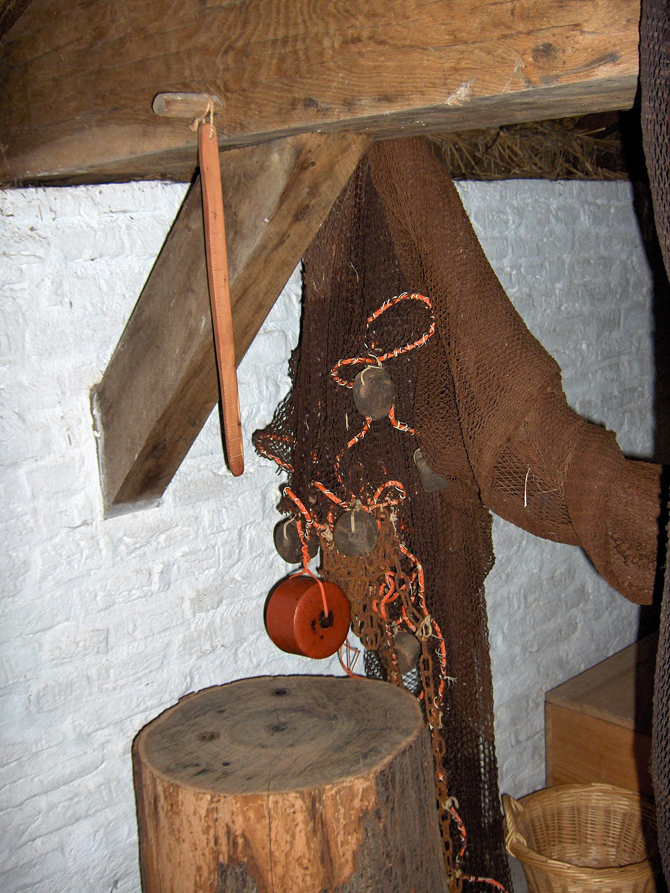 Fishing nets with weights, c. 1465; at the archeological site of Walraversijde, near Oostende, Belgium